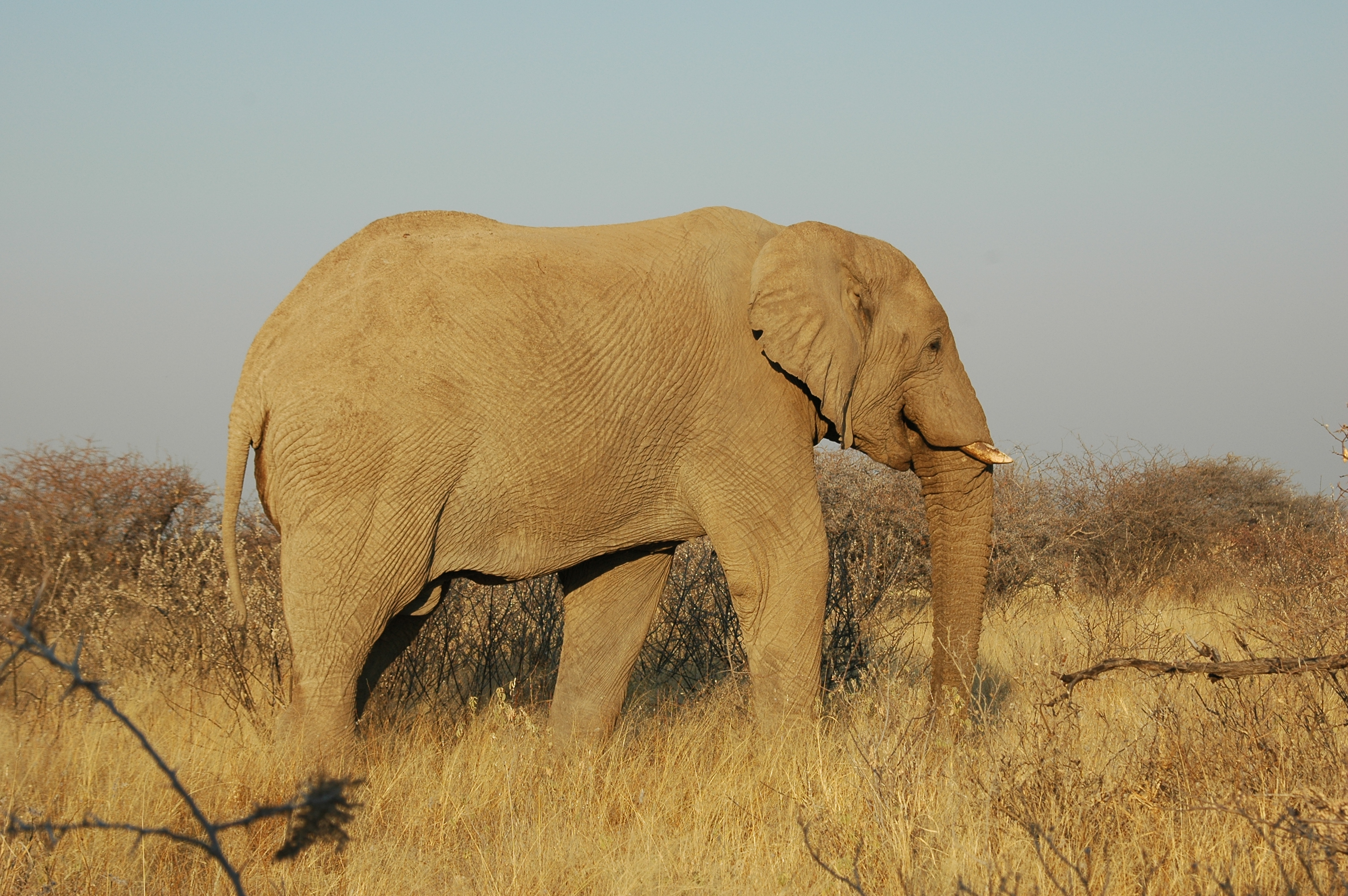 Namibie Etosha National Park Eléphant Photographie prise par GIRAUD Patrick